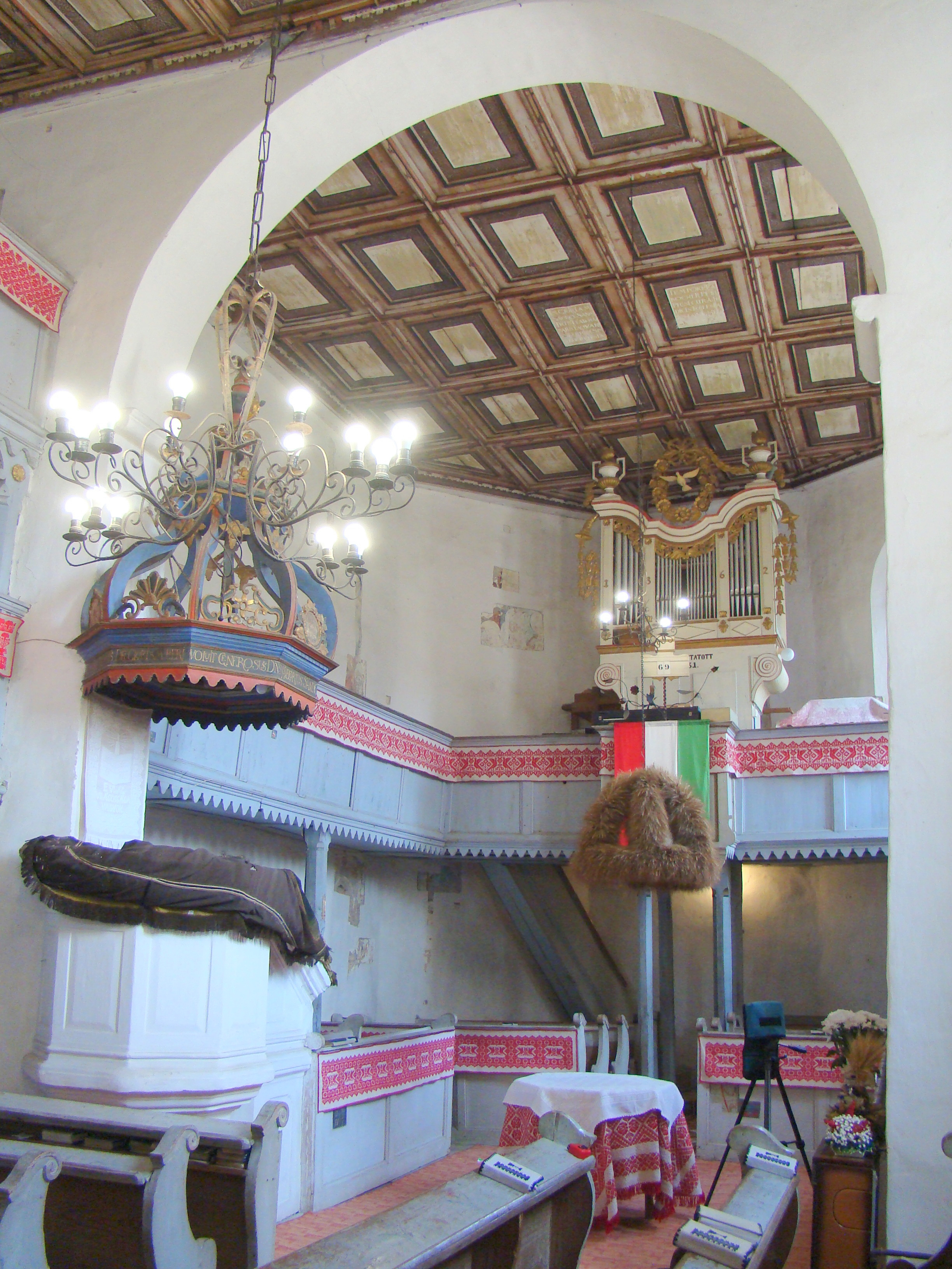 Reformed church in Lutița, Harghita County, Romania